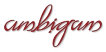 Ambigram of the word "ambigram"